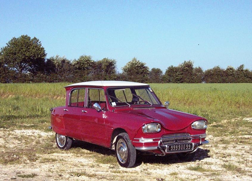 3/4 front view of AMI6 Color AC403 Rouge Corsaire